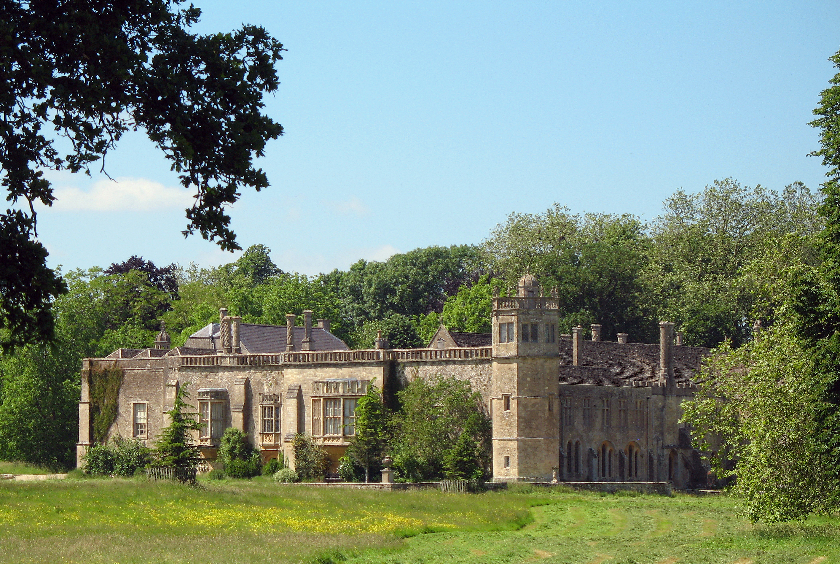 It would be going too far, I think, to describe Lacock Abbey, in Wiltshire, as the birthplace of photography -- though plenty of people do. But it is certainly true that the Abbey was the place where William Fox Talbot, in the 1830s, did a great deal of experimentation in the art and science of creating photographs. A museum of photography, celebrating his achievements, stands just outside the Abbey gates. One of Fox Talbot's most famous early images was of the oriel window which stands immediately below and between the first two sets of chimneys, reading the image from left to right. In recent years, the village of Lacock, and the Abbey, have been used as the location for numerous films, perhaps the most famous being the Harry Potter series. Flickr already offers over a thousand images of Lacock Abbey, so why provide another one? Well, because there's always someone seeing it for the first time. The original Abbey was first built in the 13th century by Ela, Countess of Salisbury, as a nunnery of the Augustinian variety. It became a private house after the dissolution of the monasteries (1540s), and has naturally been much altered since, notably by the architect Sanderson Miller in the 1750s. Currently owned by the National Trust.